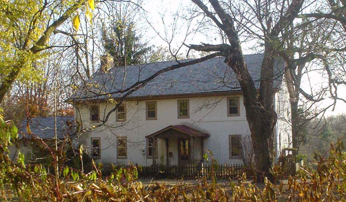 Gilpins House new Chadds Ford, PA. On NRHP.